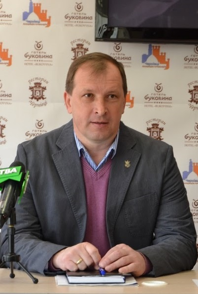 Oleg Ratiy